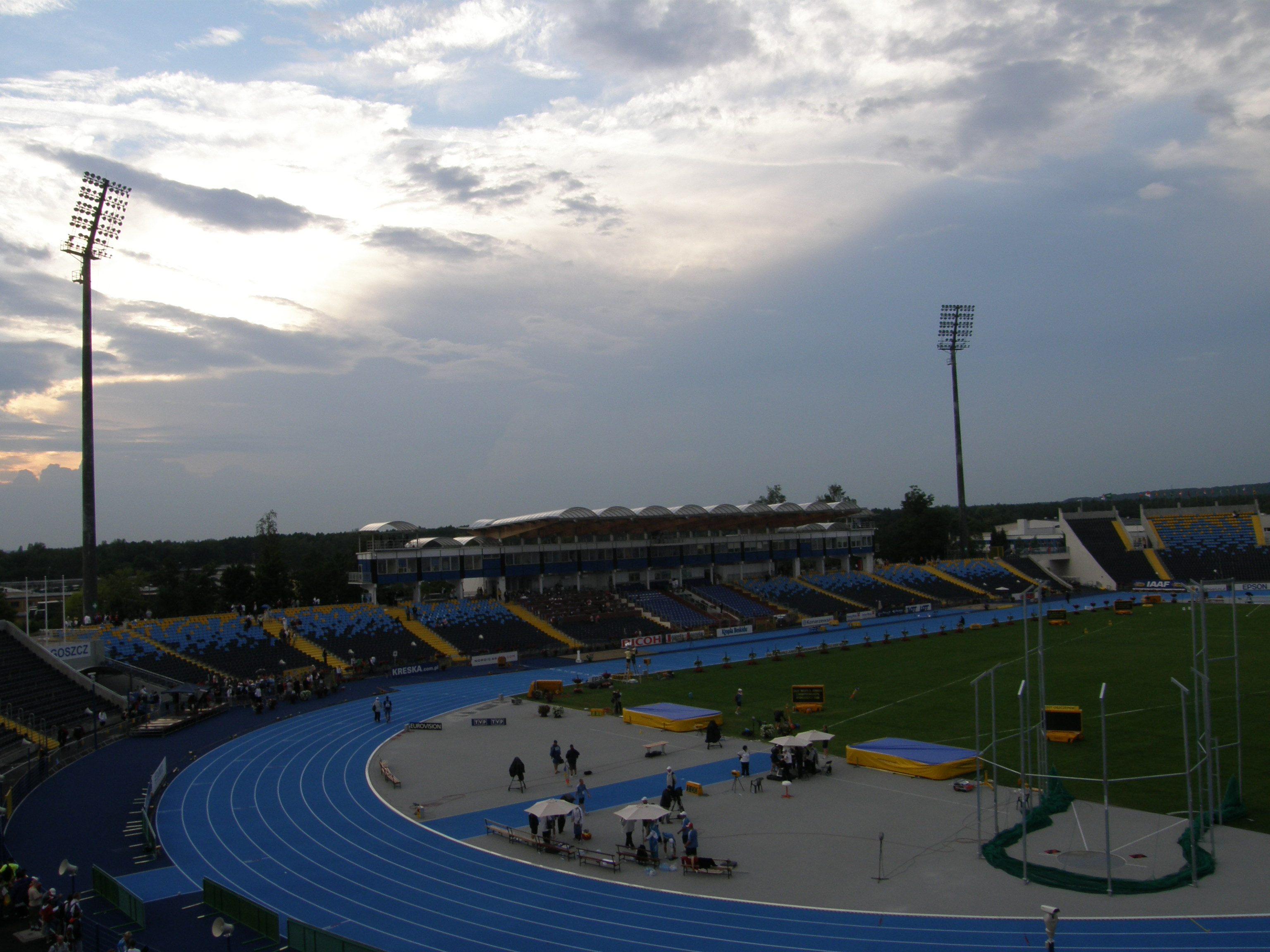 Zdzisław Krzyszkowiak Stadium, Bydgoszcz Poland